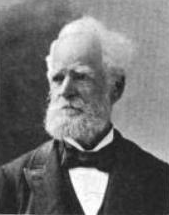 Picture of horticulturalist Robert Douglas. Appeared in a 1908 issue of The National Nurseryman.